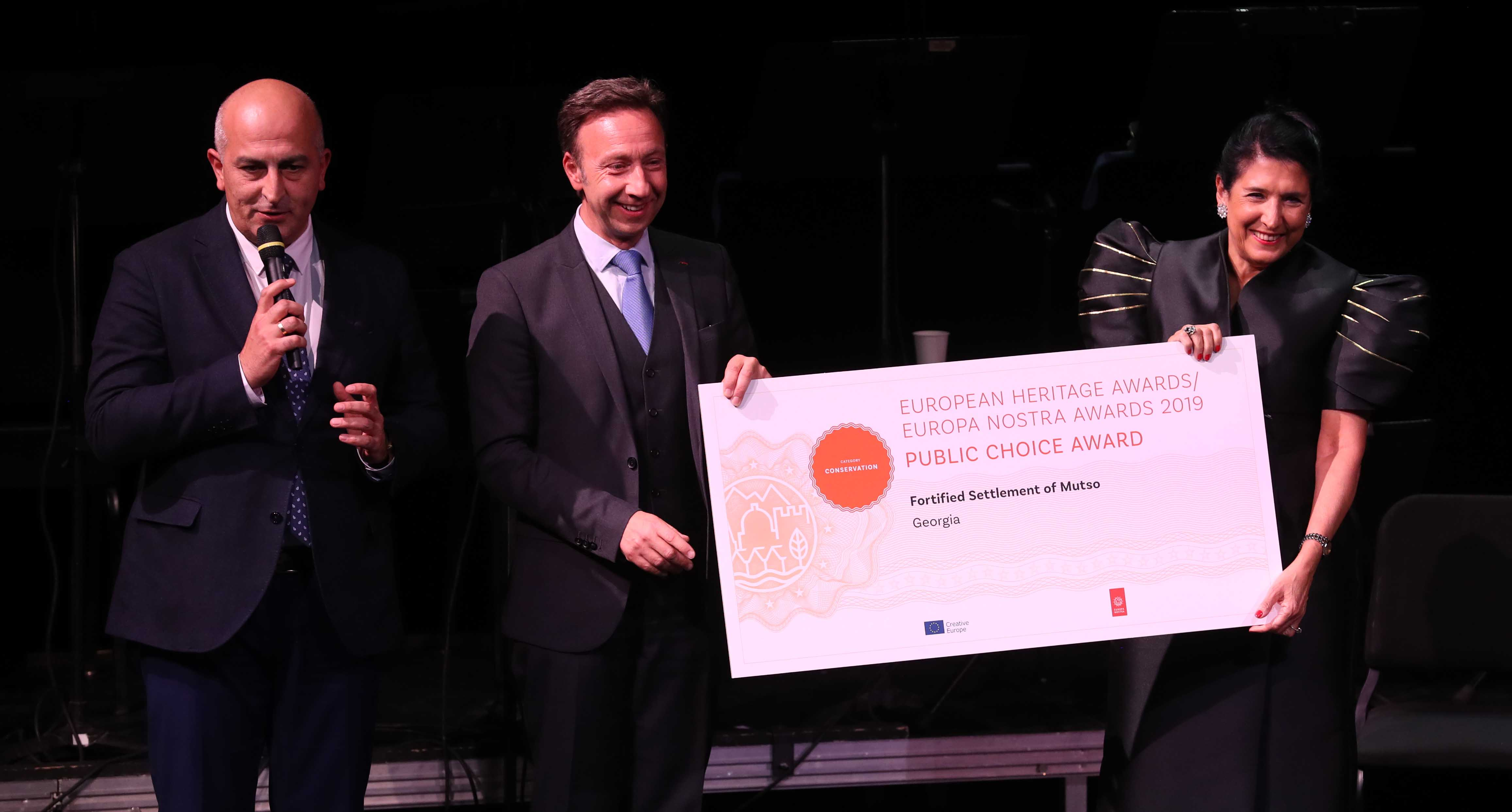 Georgian President Salome Zourabichvili with Nika Antidze (L), Director of the Georgian Historical Cultural Preservation Agency, accepting from Stephane Bern the EuropaNostra Public Choice Award at the European Cultural Heritage Summit in Paris, France, for the Fortified Settlement of Mutso.